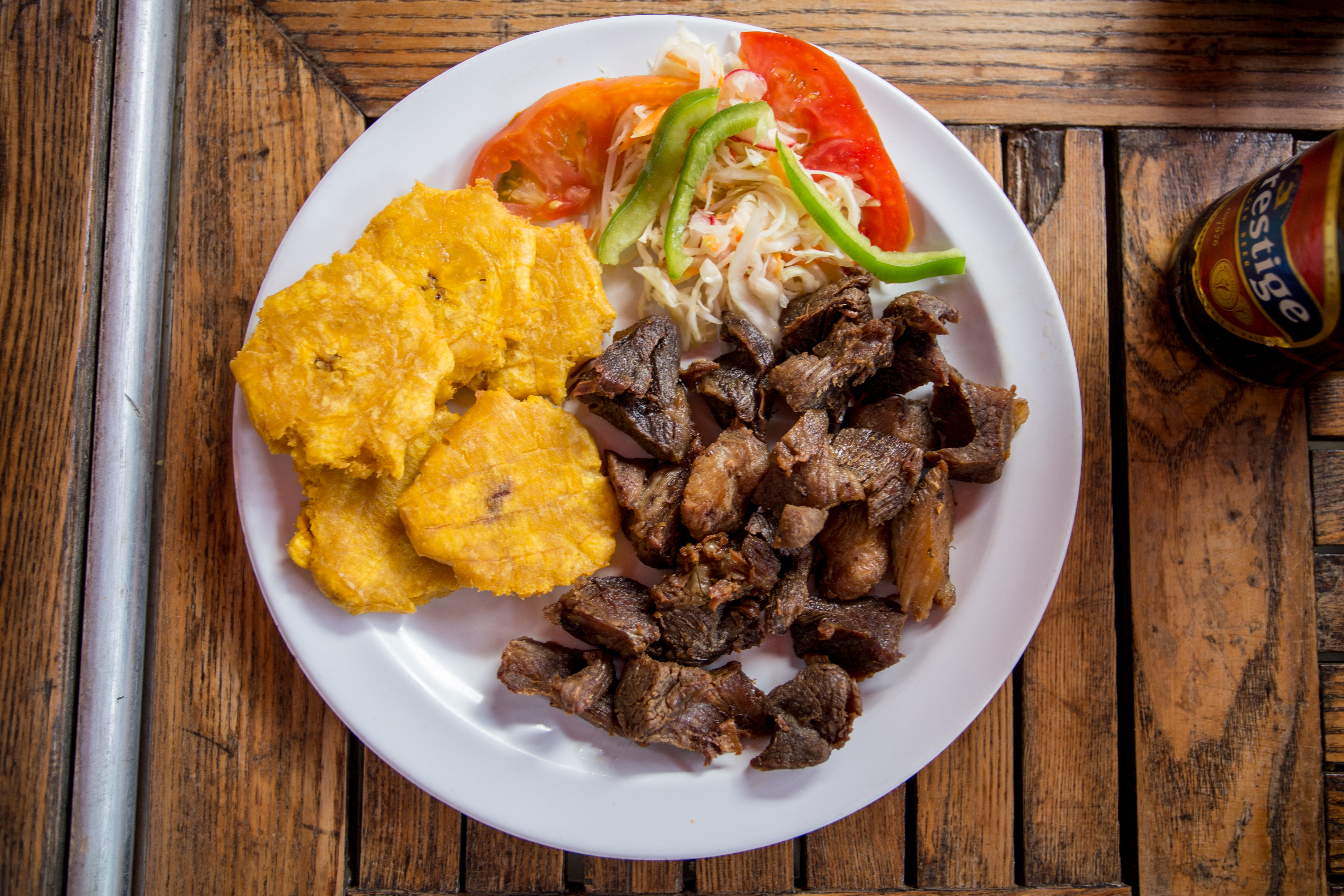 Haitian griot, a traditional meal.